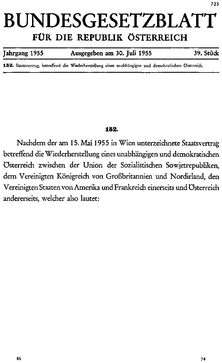 This is a scan of the historical document